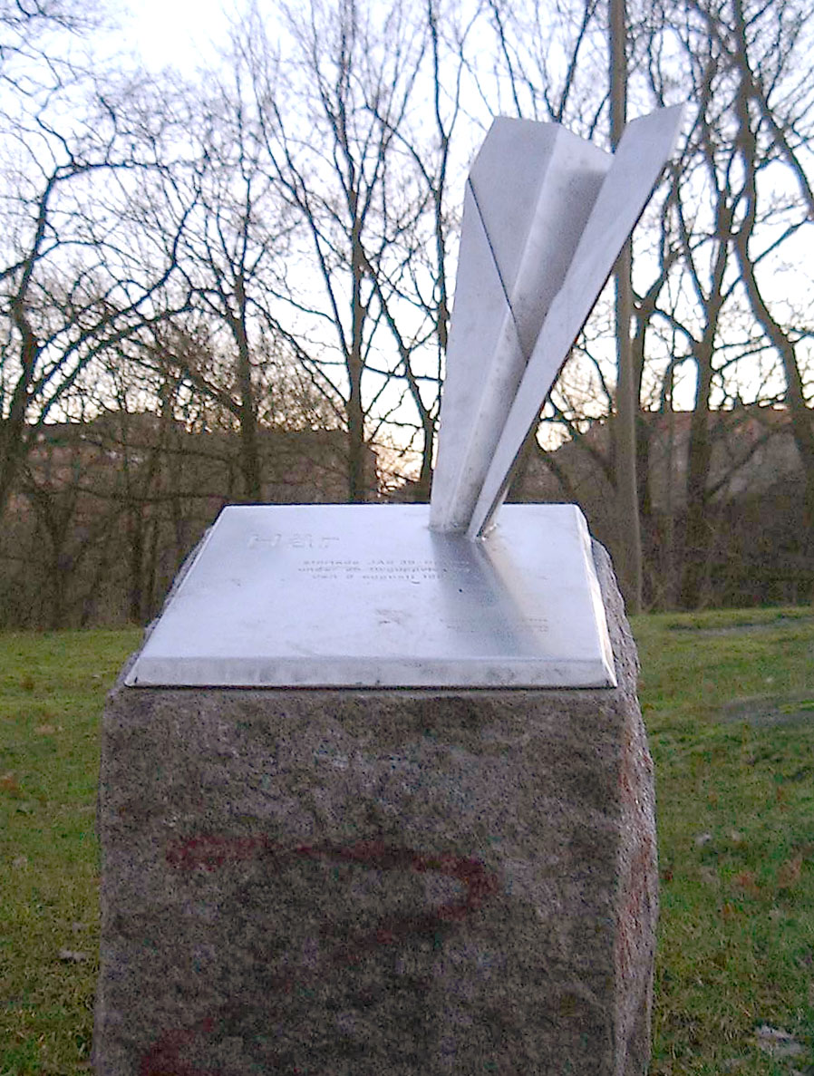 Photo of a monument on Långholmen, Stockholm, commemorating the JAS 39 Gripen crash in August 1993.